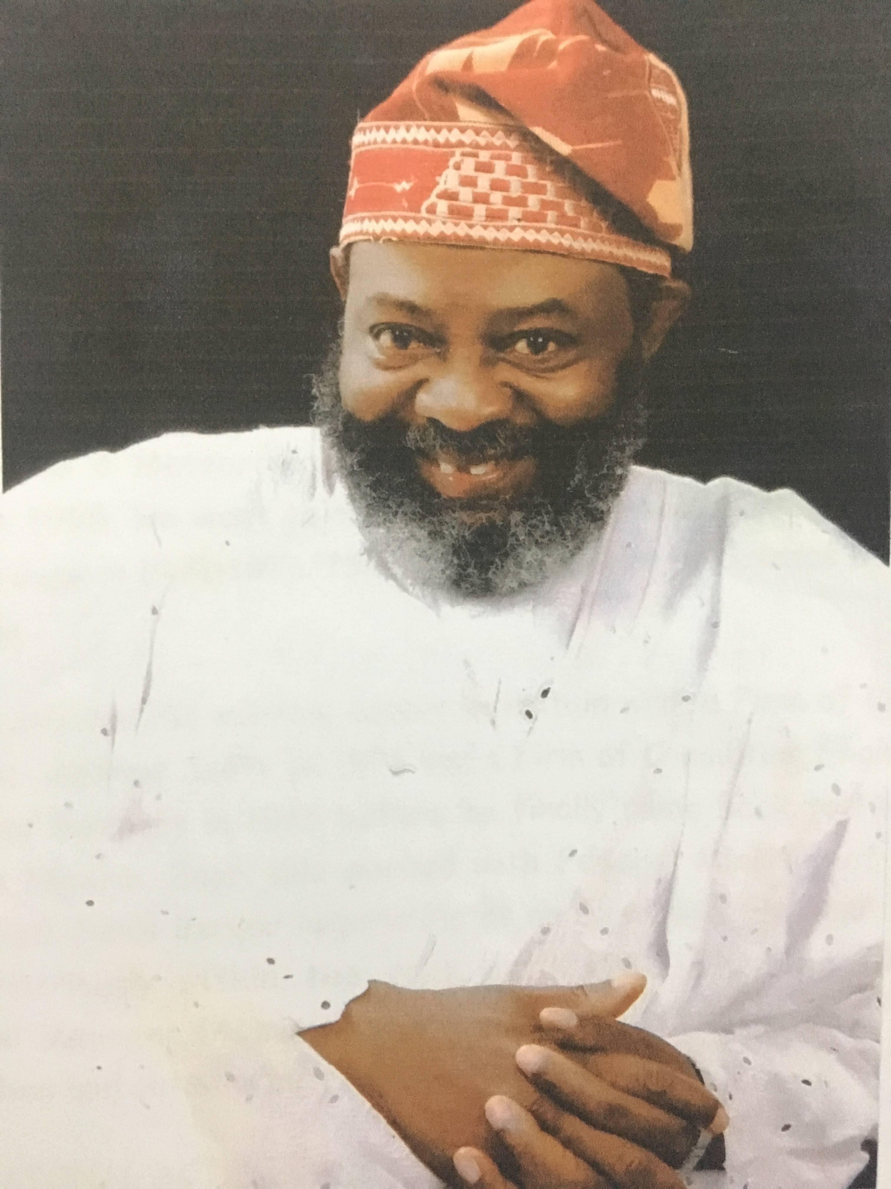 SENATOR ADEFEMI KILA'S PERSONAL PHOTO